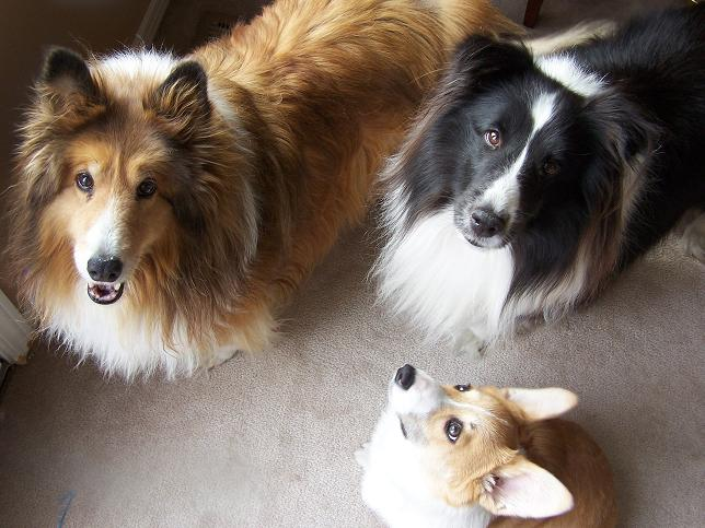 Rigby, golden sable Sheltie, 10 years. Roxy, black and white Sheltie, 5 years. Morton, red and white Pembroke Welsh Corgi, 4 months.